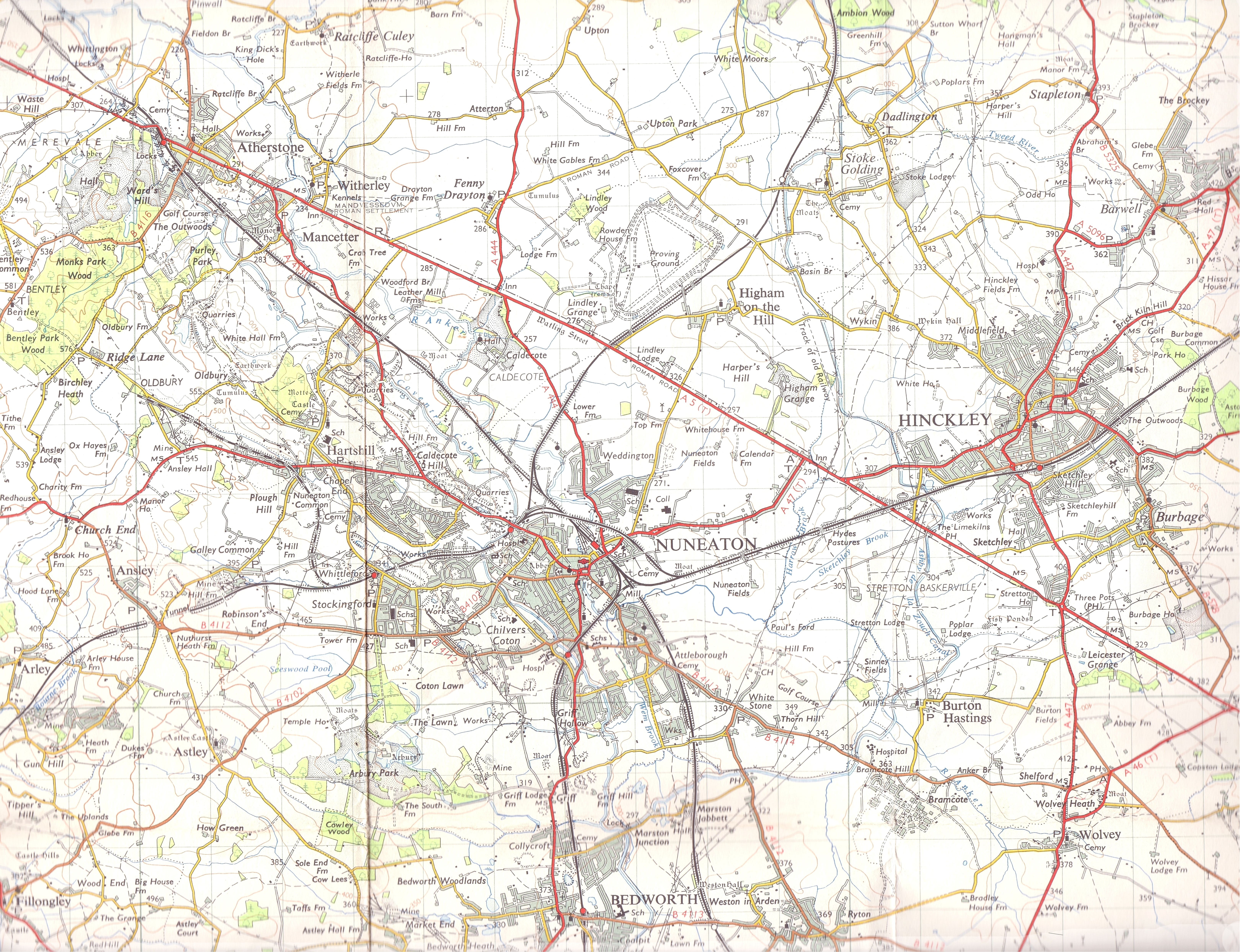 A 1961 1 inch = 1 mile series map. Copy right was 50 years and ran out in 2011. It covers Hinkley, Nuneaton, part of Bedworth, Atherstone, Arsley, Burton Hastings, Harts Hill and Wovley. Harts Hill quarry is attached to a railway and in full swing. The coal mines near Griff Lodge Farm and Ansely Hall are in early decline. The mines are now shut and the quarry is (as far as I know) a rubbish-tip. Note the even by then removed railway by Higham Grange and Higham on the Hill.